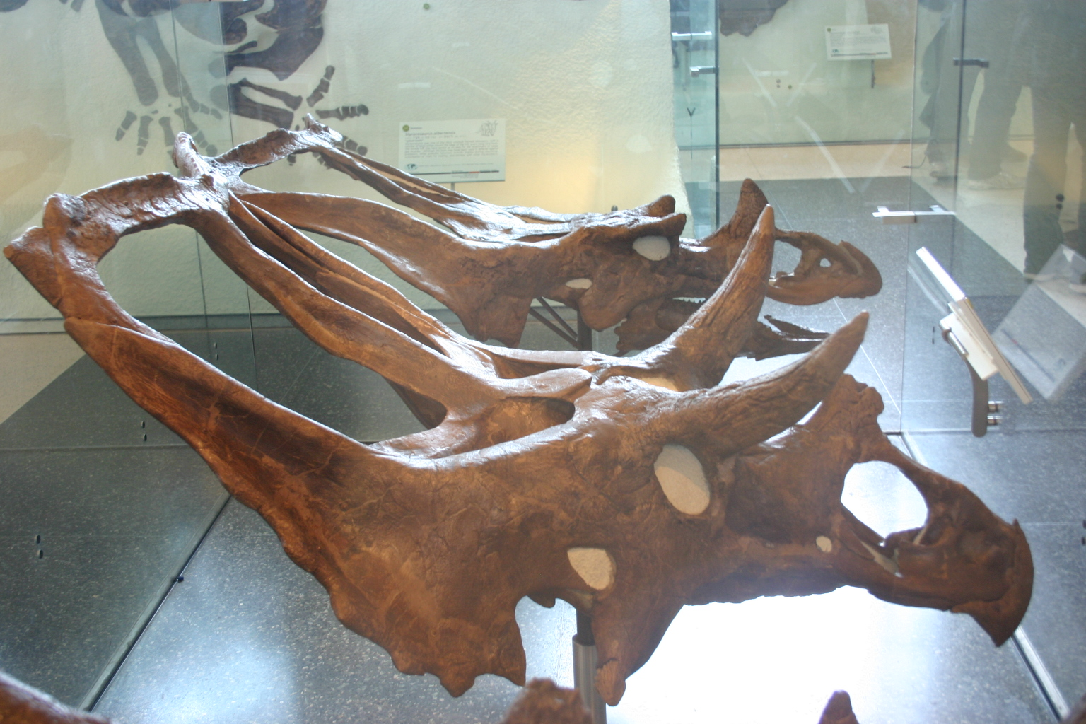 Mojoceratops specimen AMNH 5401 next to a skull of Chasmosaurus belli